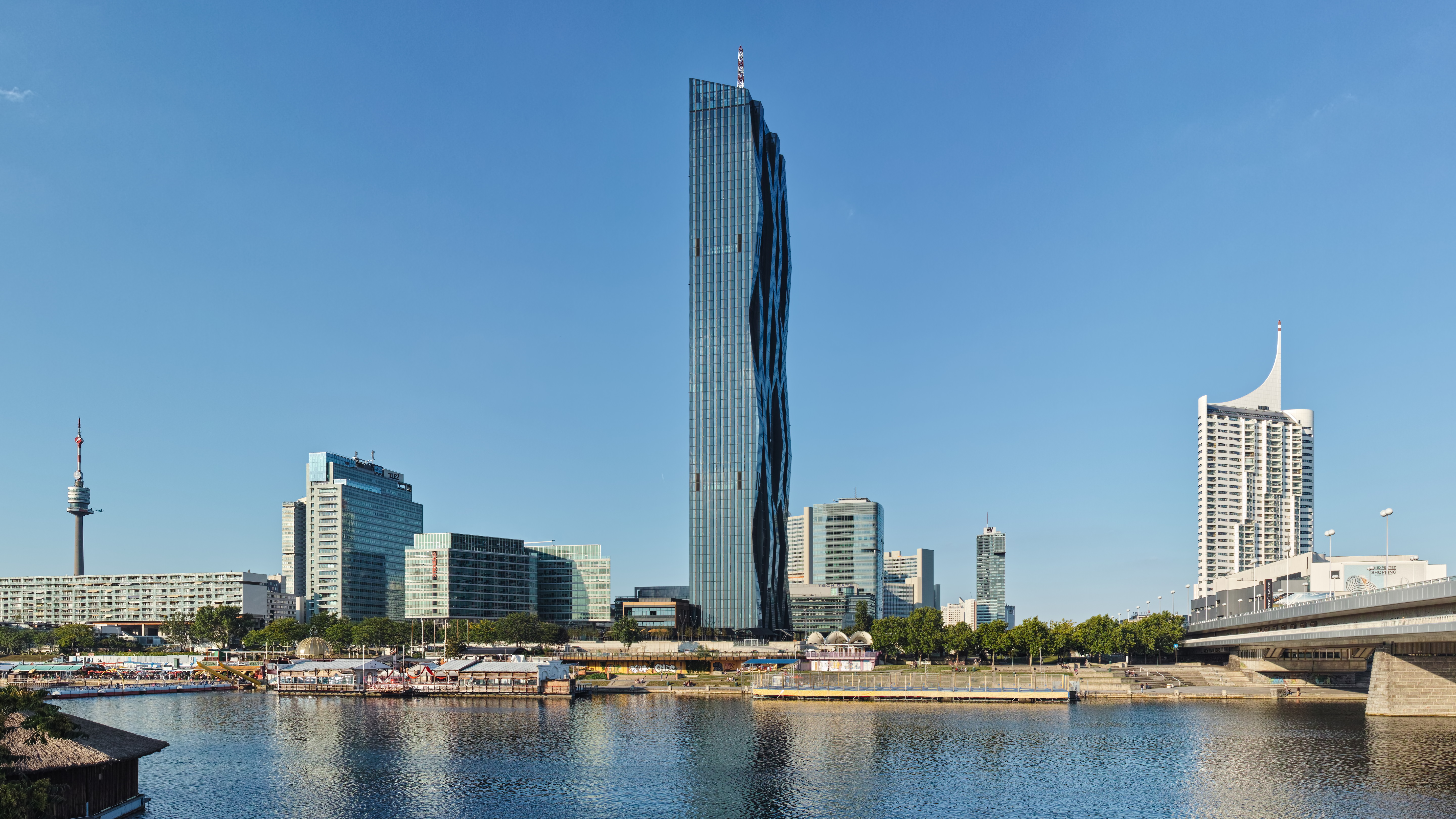 The Donau City in Vienna, with the tallest building in Austria the DC Tower 1, seen from the Donauinsel on August 28, 2014 (cropped version).